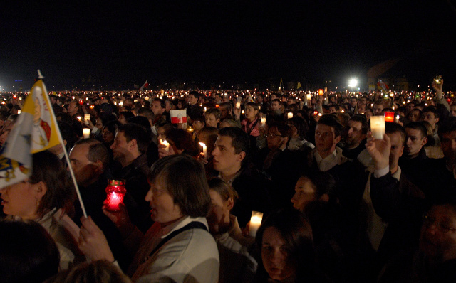 A photo from "White Walk" organised 7-apr-2005 in Cracow, Poland to thank for the John Paul II pontificate. On this photo: Błonia park during the mass. Photographer: Michał Miłoś (Michal Milos)